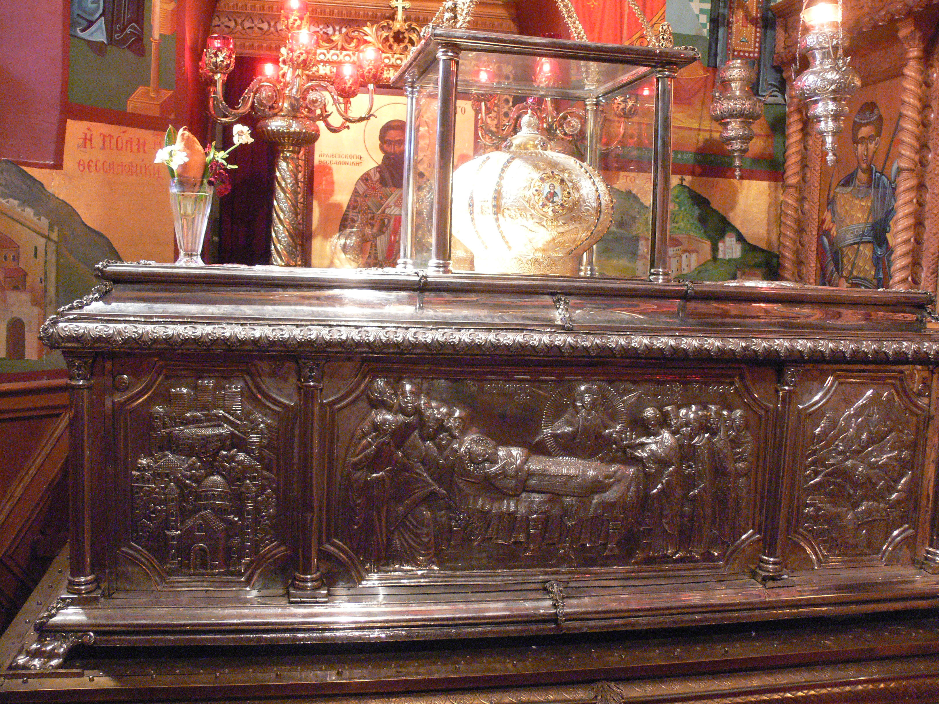 The Church of Saint Gregory Palamas, Metropolitan Church of the Orthodox. Reliquiar.